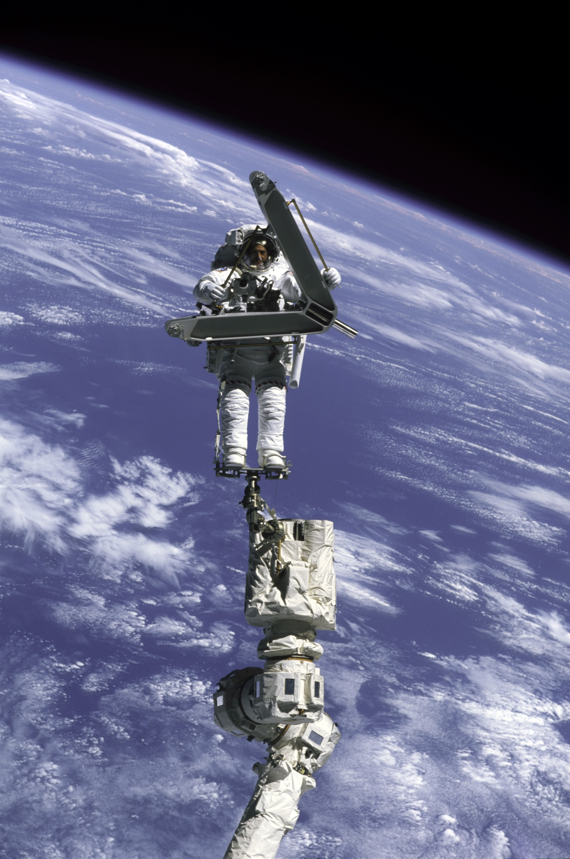 Anchored on the International Space Station's (ISS) Canadarm2 some 240 miles above the blue and white Earth, astronaut Lee M.E. Morin totes one of the S0 (S-zero) keel pins, which were removed from their functional position on the truss and attached on to its exterior for long-term stowage. Morin, teamed up with astronaut Jerry L. Ross (out of frame) for the extravehicular work, was participating in his first career EVA and the second of four scheduled overall STS-110 space walks.